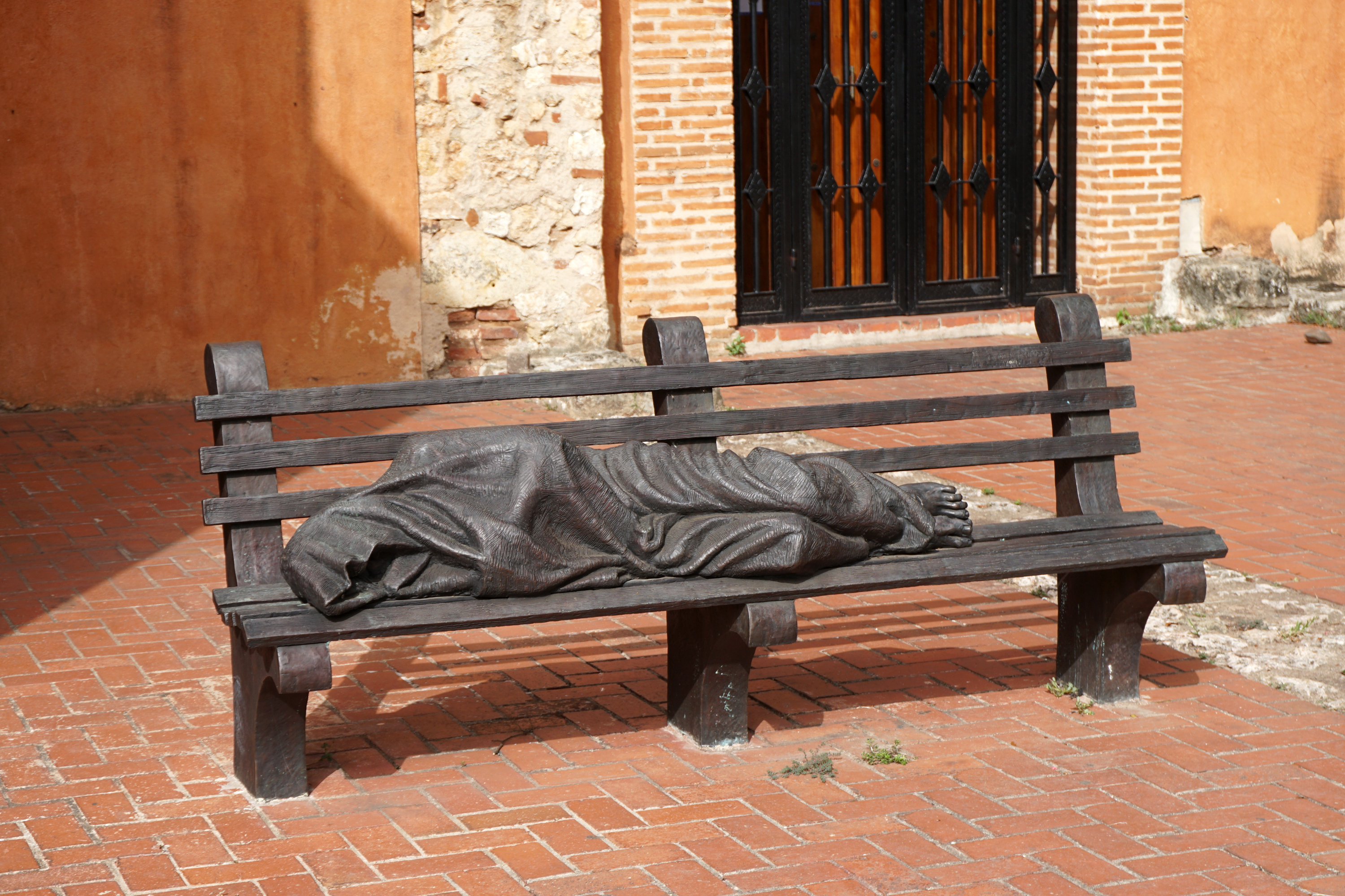 Replica of the "Homeless Jesus" sculpture by Thimoty P. Schmalz at the Dominican Order Church and Convent Ciudad Colonial, Santo Domingo, Dominican Republic.